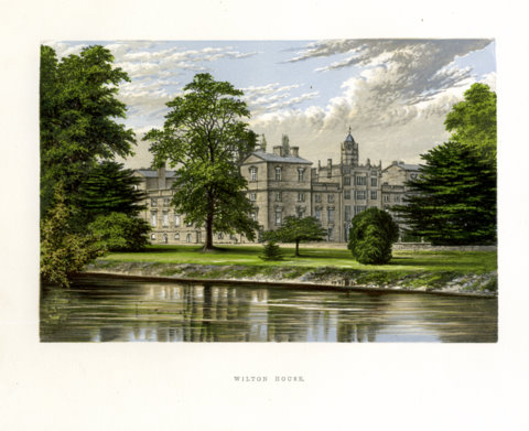 Wilton House Wiltshire Baxter print c1880